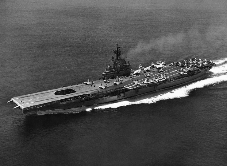 The U.S. Navy aircraft carrier USS Hancock (CVA-19) underway at sea on 15 July 1957. She was then deployed with the Seventh Fleet in the western Pacific from 6 April to 18 September 1957. There are various aircraft of Air Task Group 2 (ATG-2) visible on deck: seven North American FJ-3M Fury from VF-143 Kingpins; ten McDonnell F2H-4 Banshee from VMF(AW)-214 Black Sheep; two Vought F7U-3M Cutlass from VA-116 Roadrunners; fifteen Douglas AD-4Q/-6/-7 Skyraider from VA-55 Warhorses; and three North American AJ-2 Savage bombers from VAH-6 Det.I Fleurs.